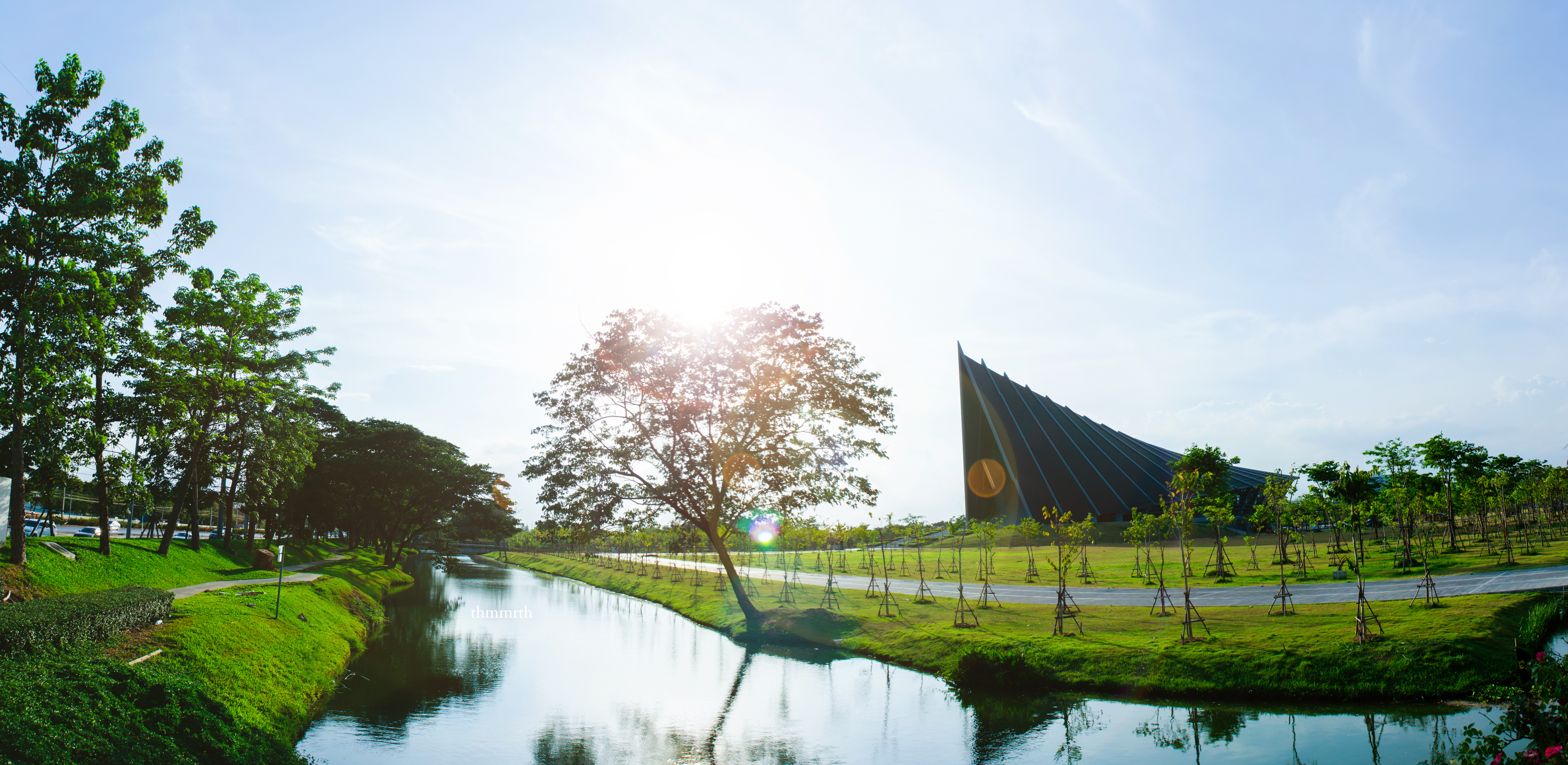 A wide angle shot of Prince Mahidol Hall, the main multi-purpose hall of Mahidol University in Salaya, Nakhon Pathom, Thailand.